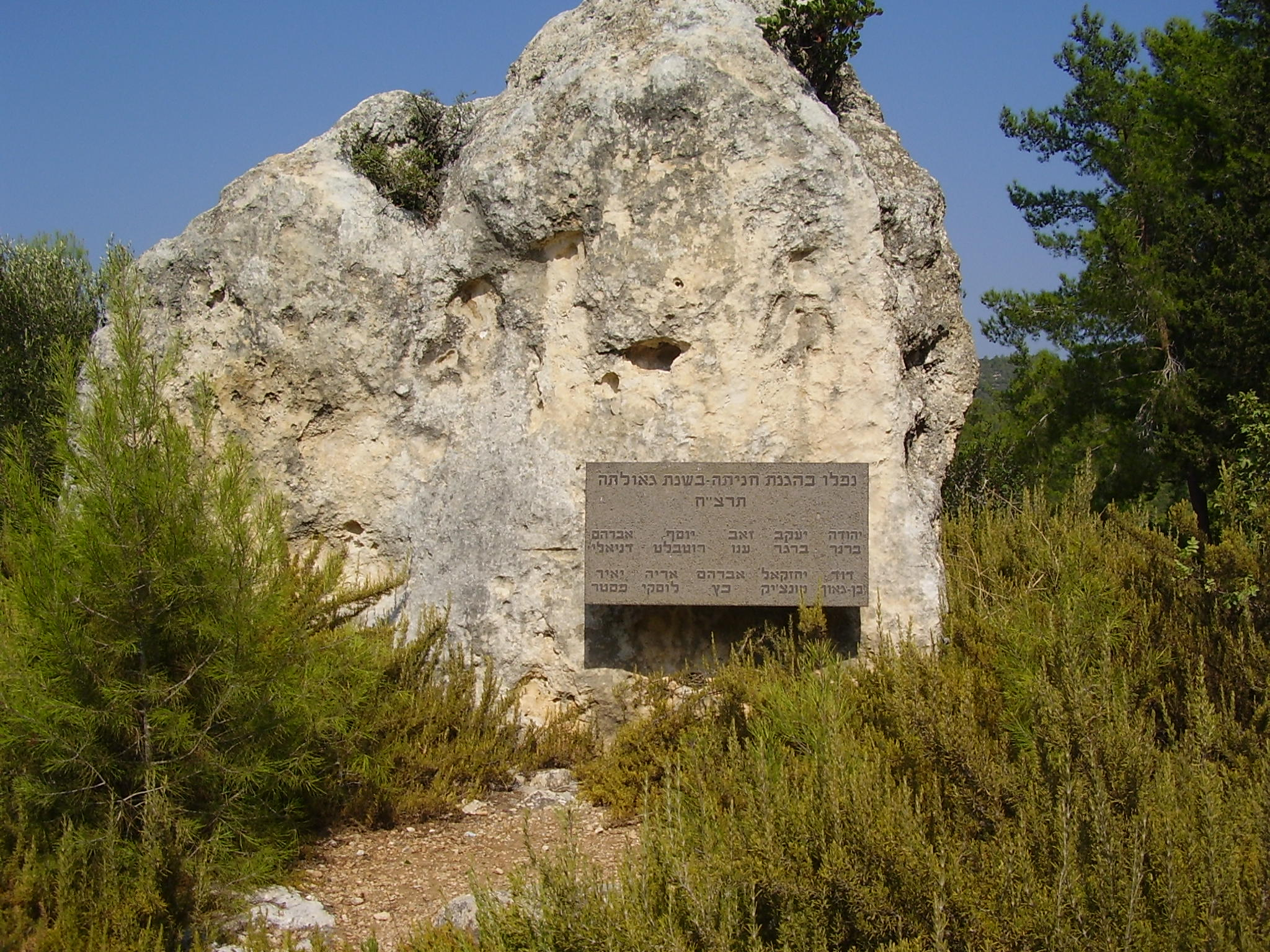 war memorial in lower hanita סלע זכרון לעשרת החללים בחניתה תחתית